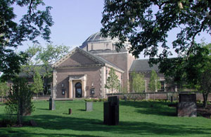 Lake Forest Library in Lake Forest, IL